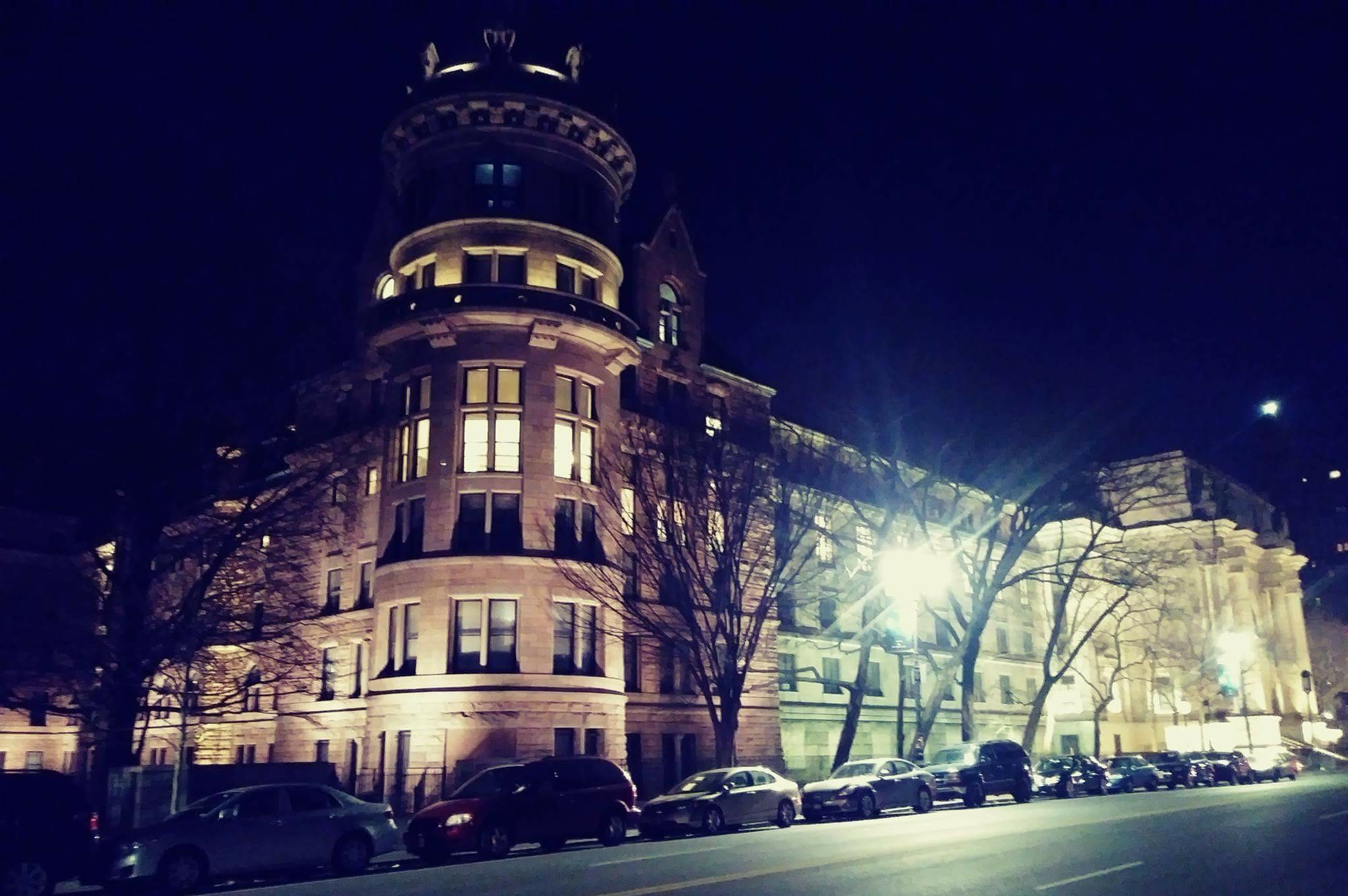 The American Museum of Natural History in NYC at night